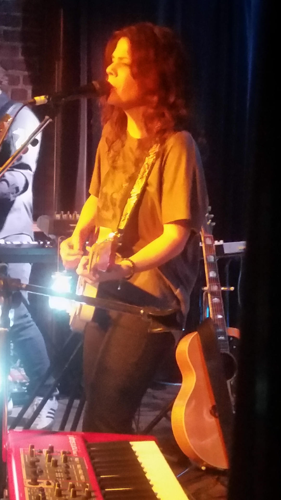 Catherine Durand photographed in Montréal, Québec, Canada at the Verre Bouteille.